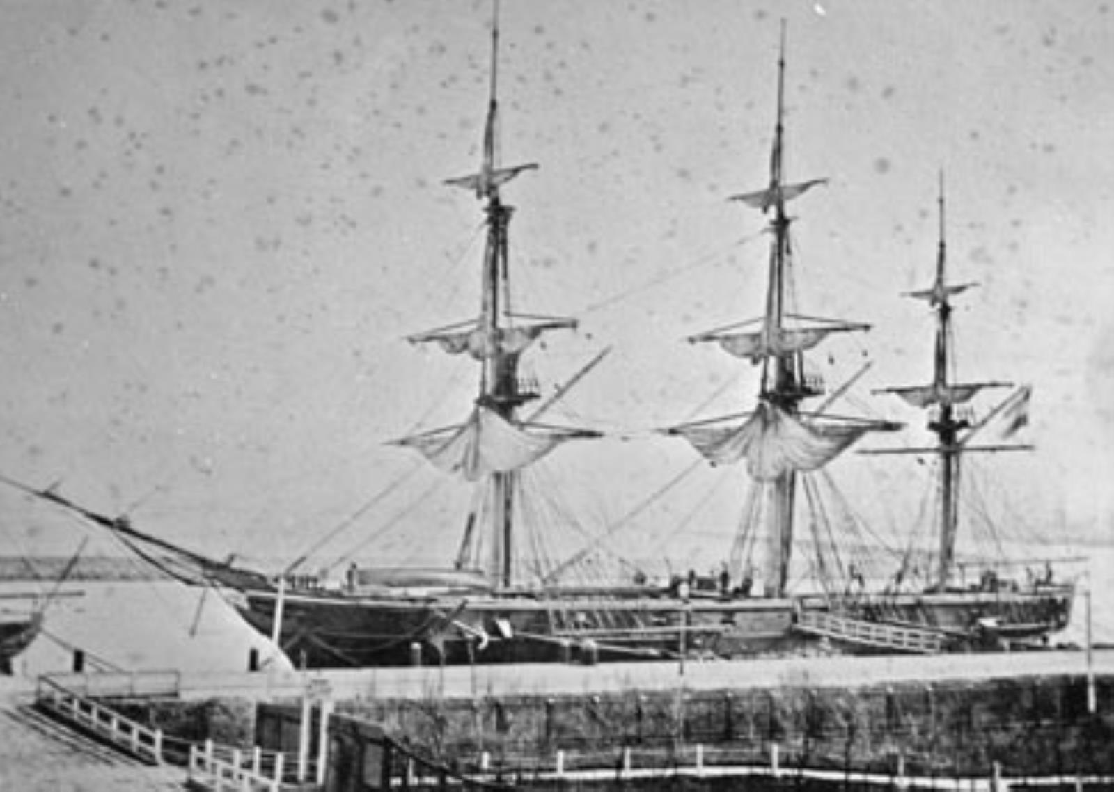 Photograph of the Dutch Screw Corvette Vice-Admiraal Koopman